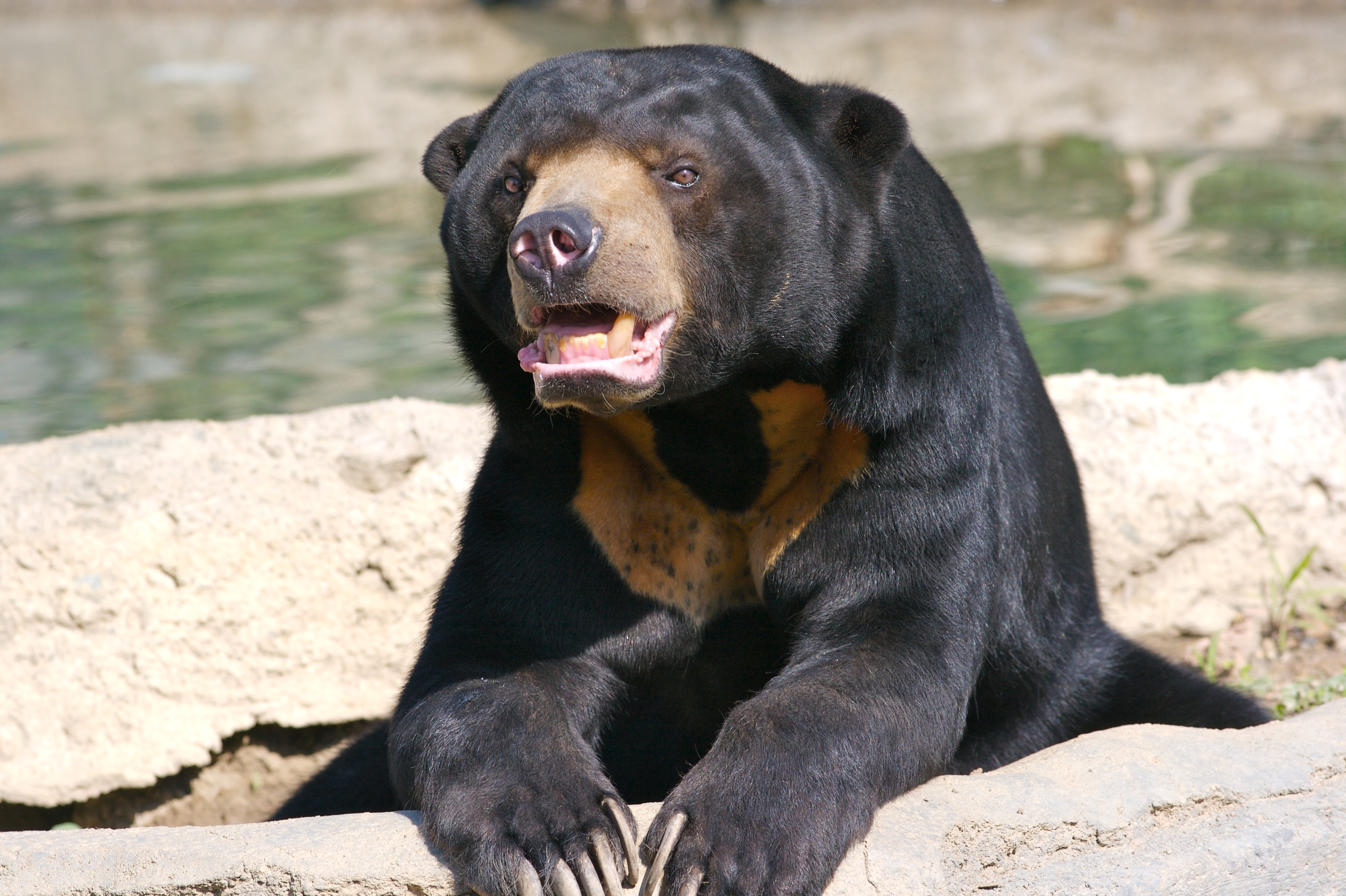 Sun Bear in captivity at the Columbus Zoo, Powell Ohio